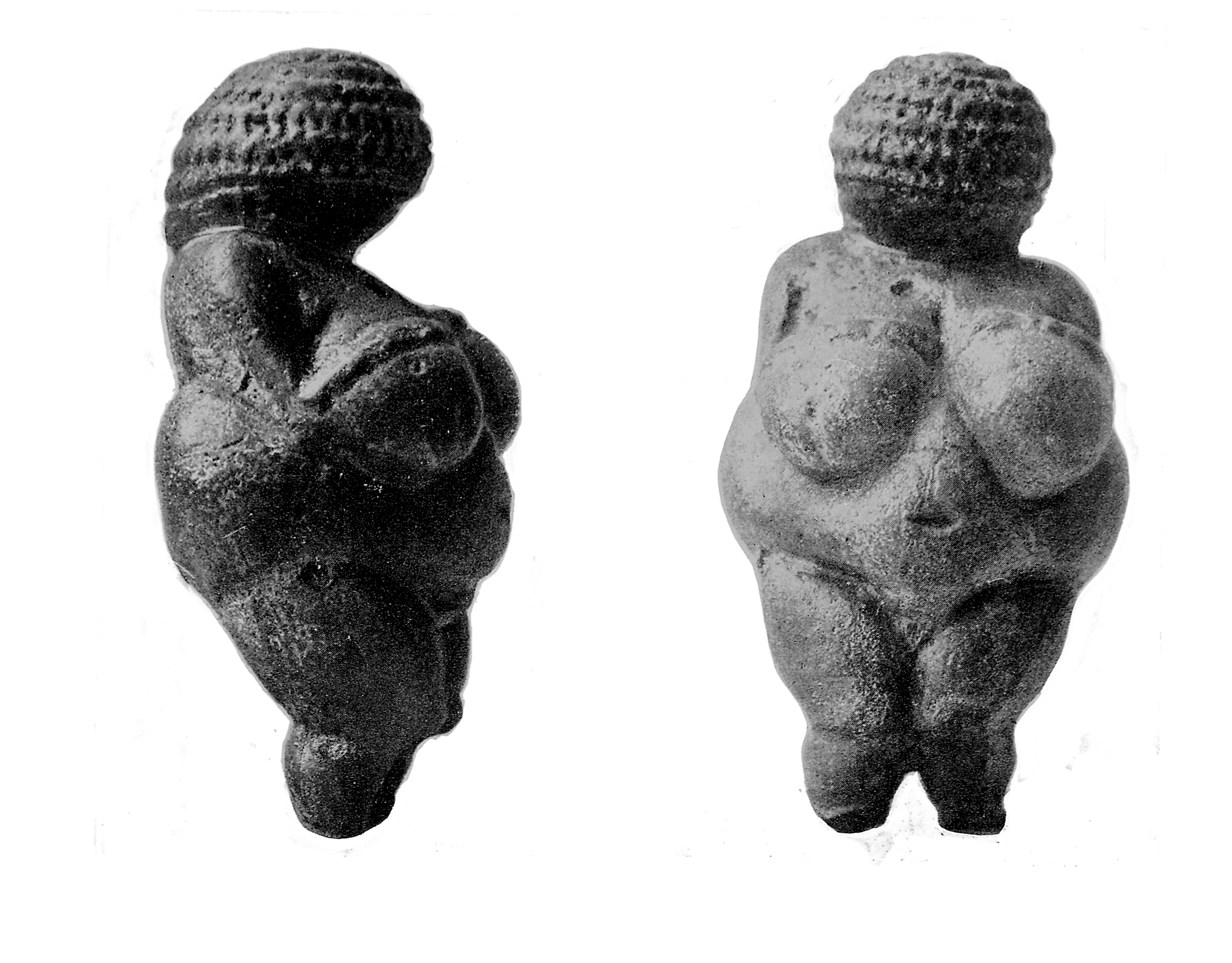 A female Paleolithic figurine [also know as the Venus of Willendorf] of oolitic limestone tinted with red ochre, found in Willendorf, Austria Wellcome Images